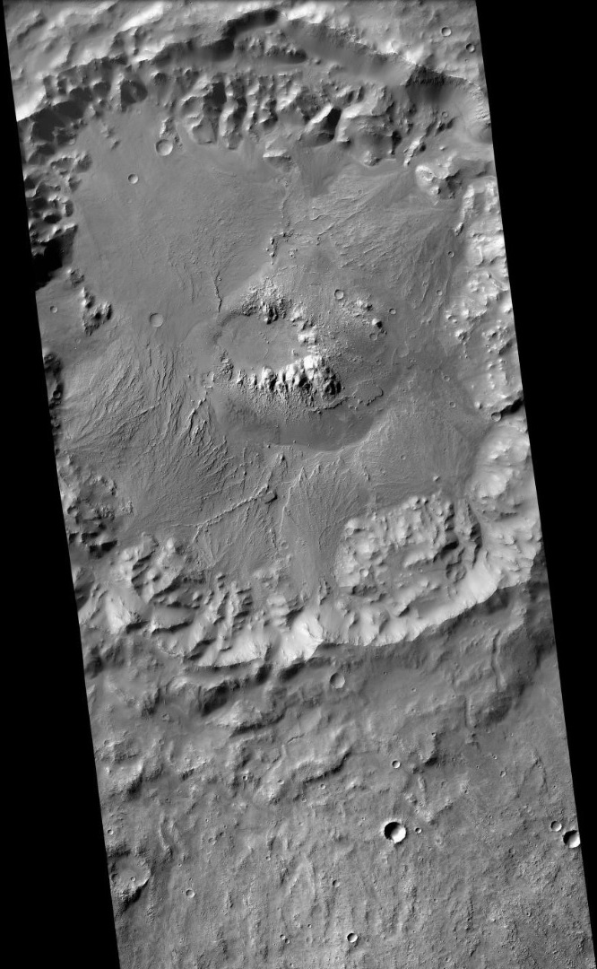 Vinogradov Crater, showing fans, as seen by ctx